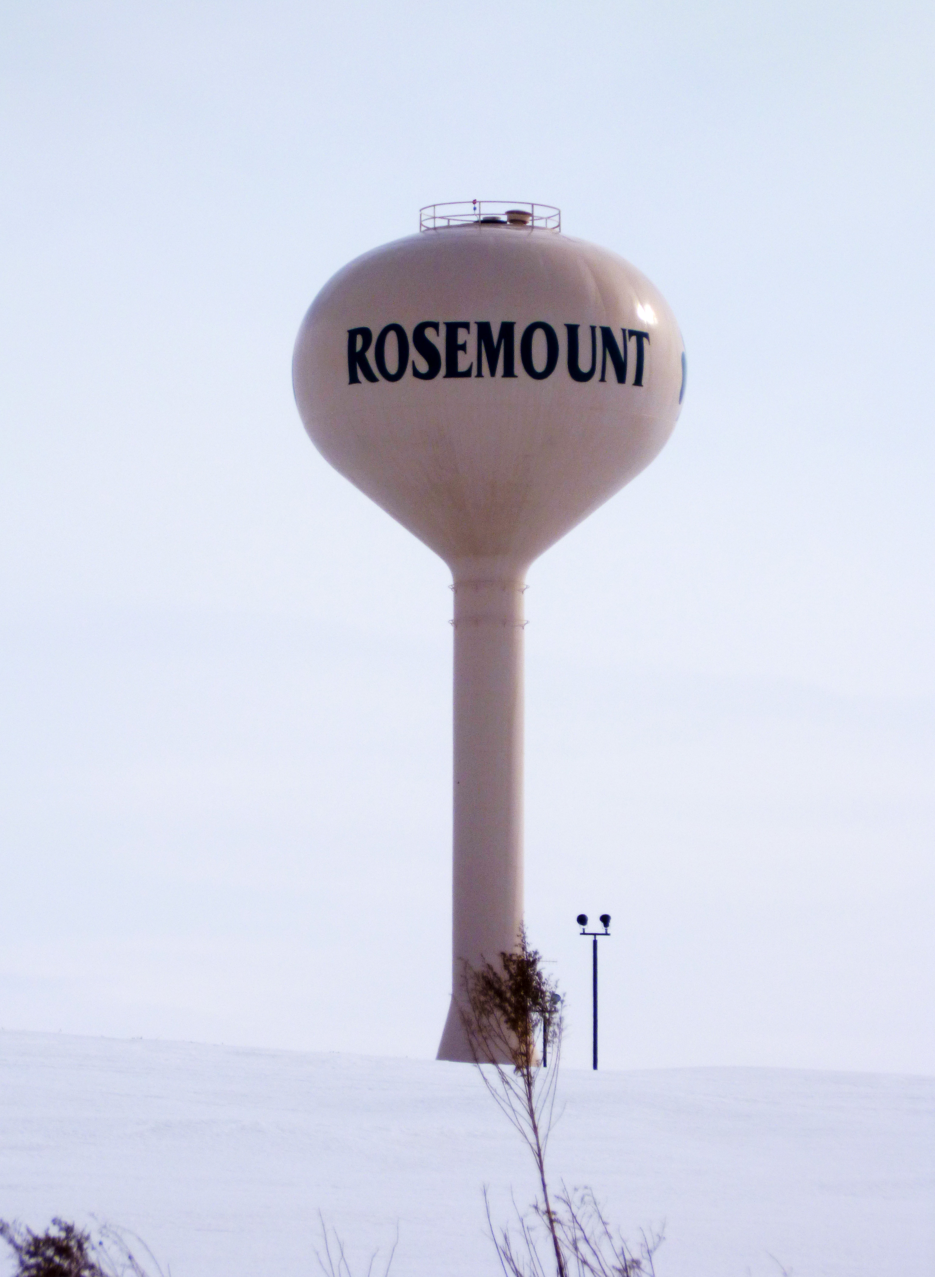 Rosemount, MN Watertower